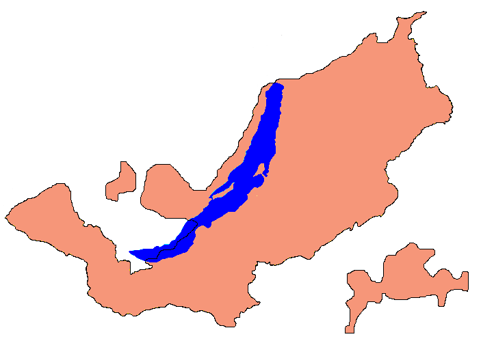 Map the Buryat-Mongolian of the Autonomoust Soviet Socialist Republic in 1929